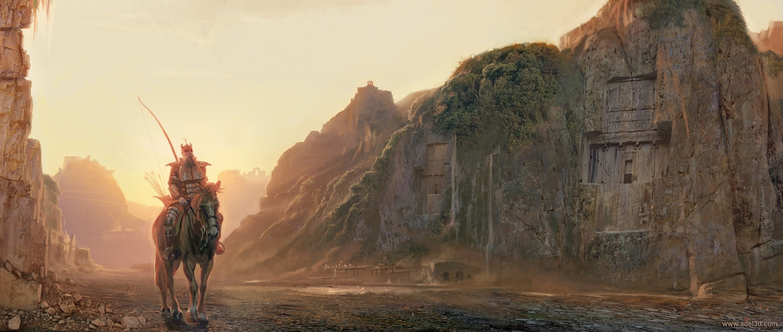 Rostam Riding Toward the History